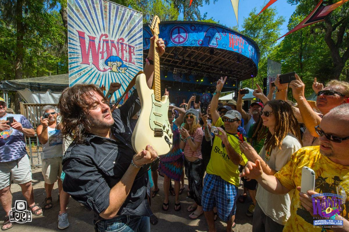 Sean Chambers performs at the 2014 annual Wanee Festival in Live Oak, FL. Sean walking through the crowd during encore!